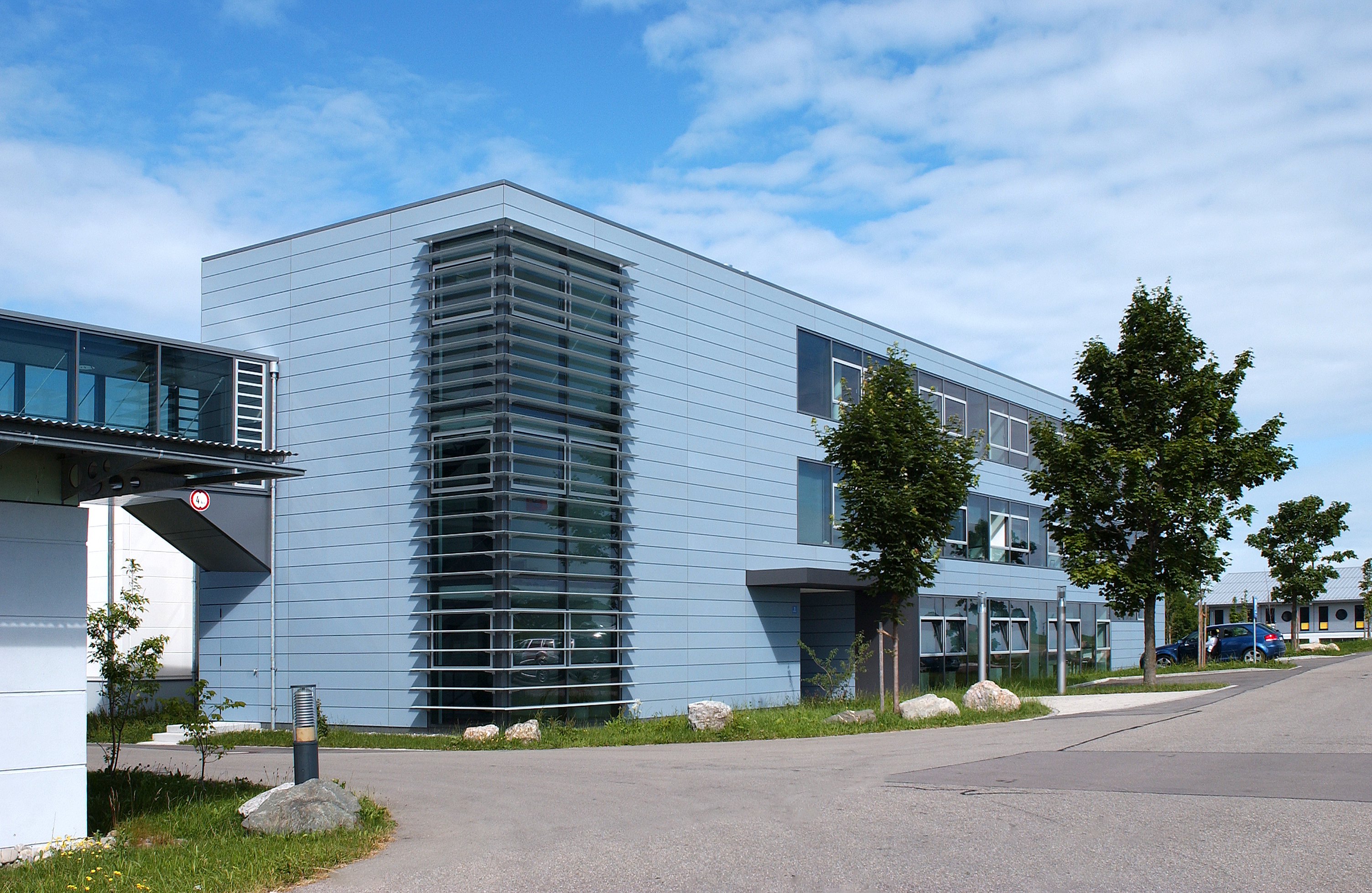 View: entrance area of the Swoboda location in Wiggensbach (Allgäu)